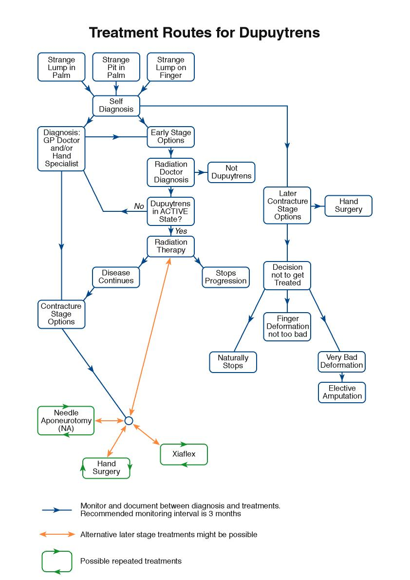 Flowchart diagram of treatment routes for Dupuytrens.